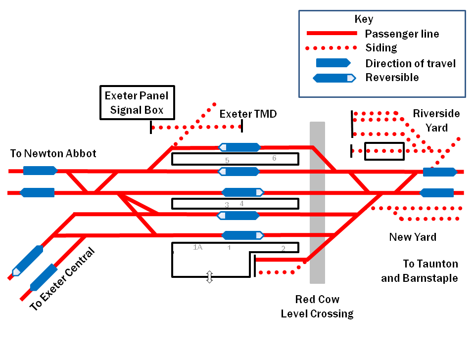 A diagram (not to scale) of the tracks and platforms at St Davids station, Exeter, Devon, England.